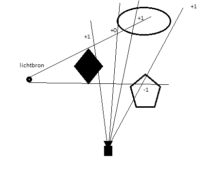 Diagram of the depth fail shadow volume algoritme also know as Carmack's Reverse